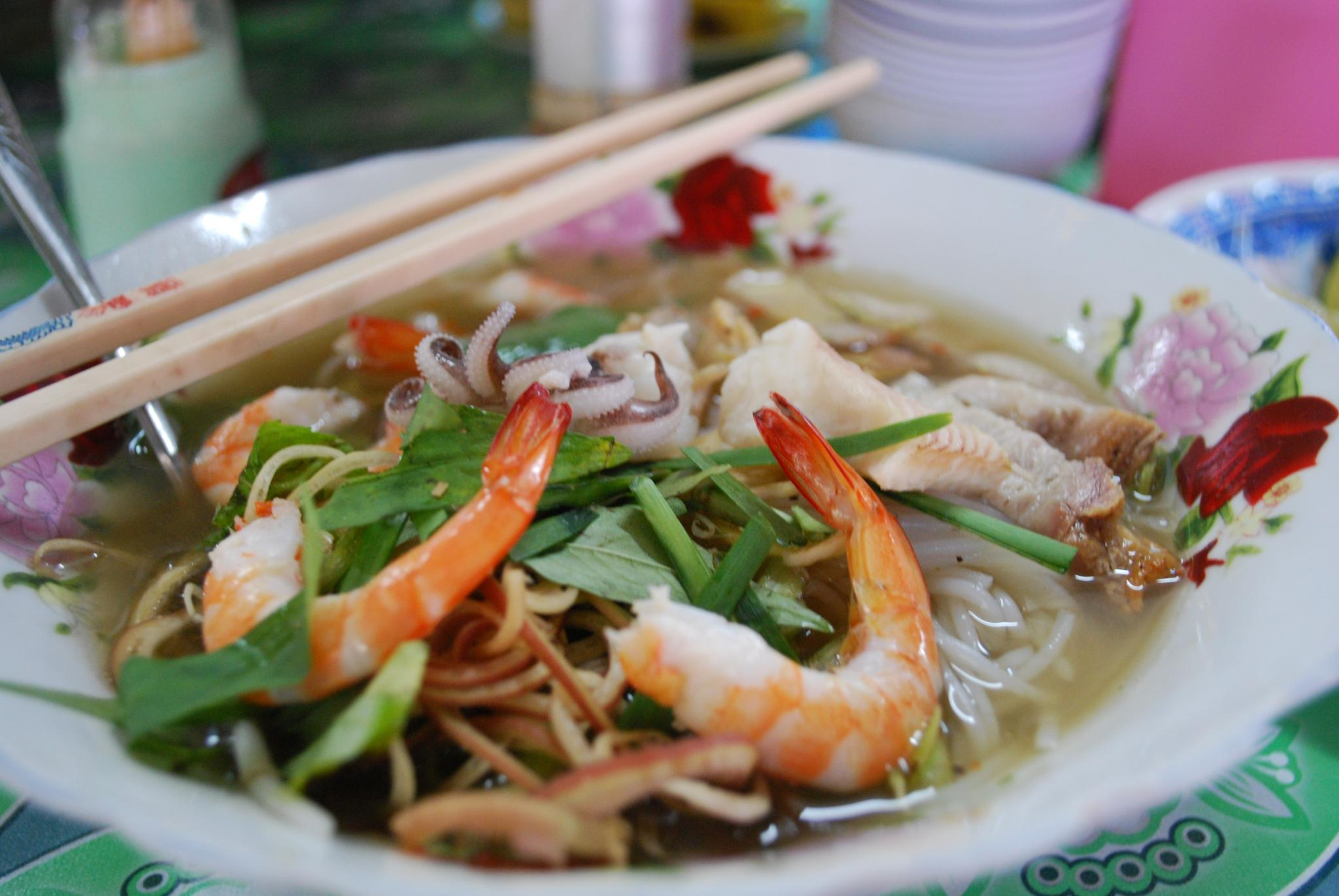 Bun mam from Soc Trang province